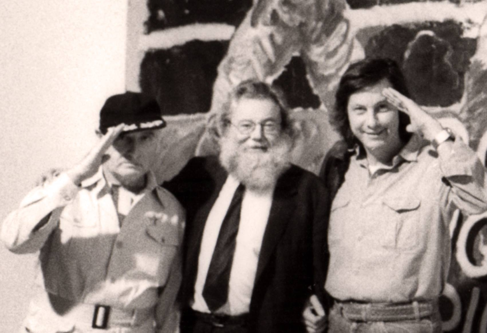 Mimmo Rotella, Pierre Restany, Filippo Panseca. The photography has been shooted at Marconi Studio Milano (Archivio Panseca)